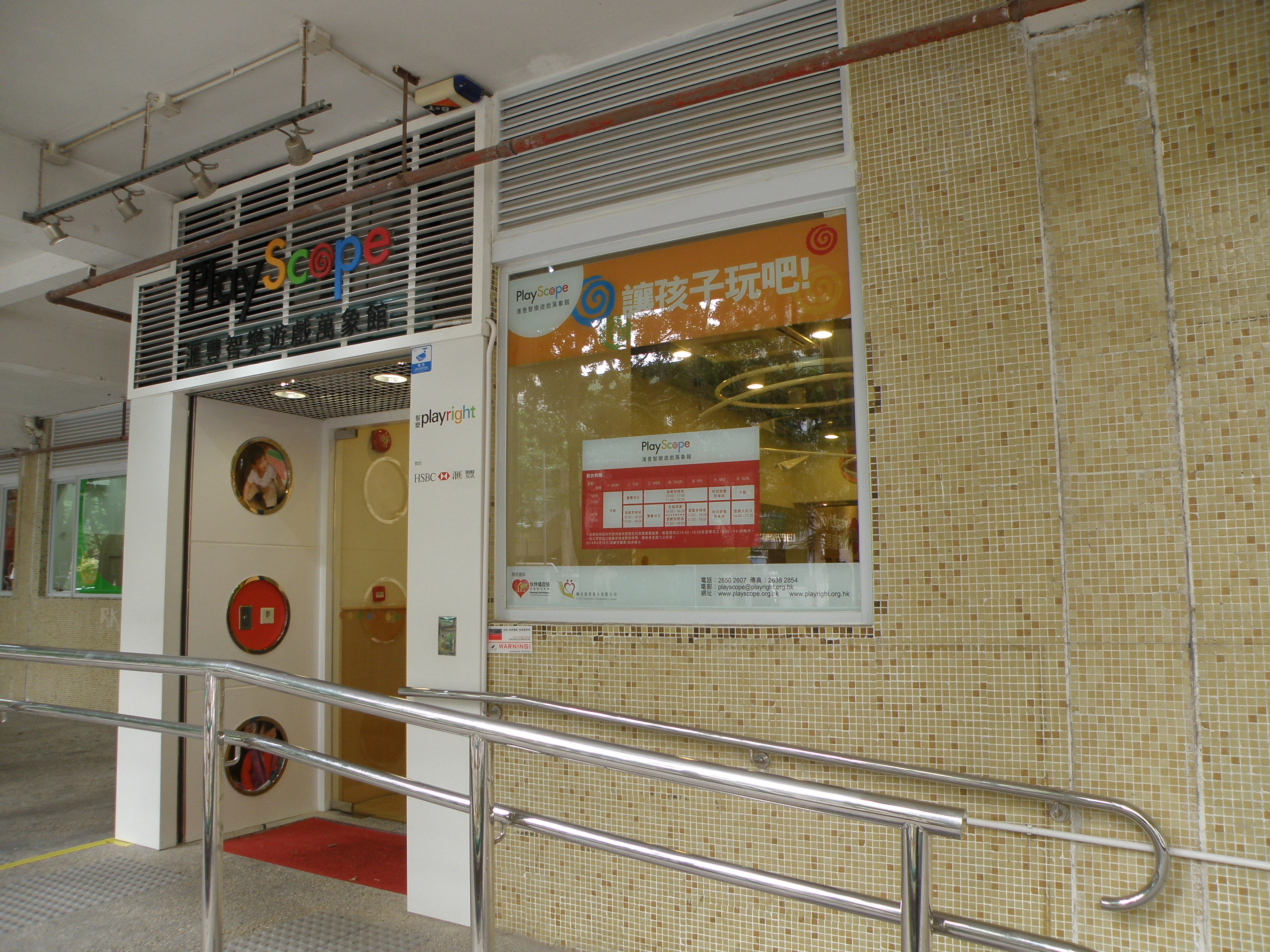 Play Scope in Tai Po, Hong Kong.